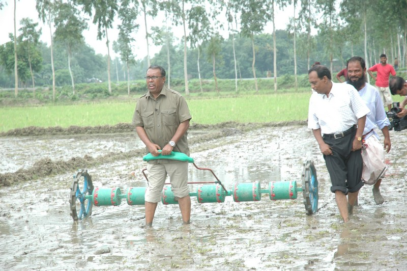 Promoting drum-seeder on electronic media. Creating awareness among farmers. Inspiring them to use this new technology.